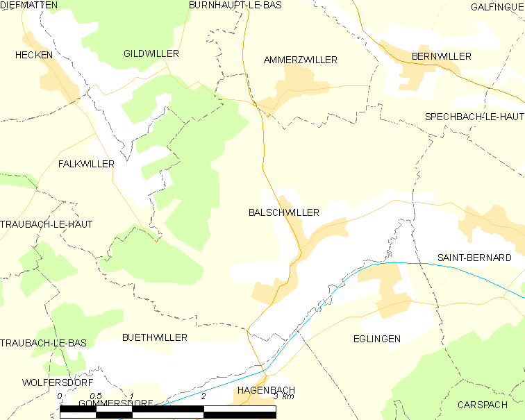 Map of French municipality